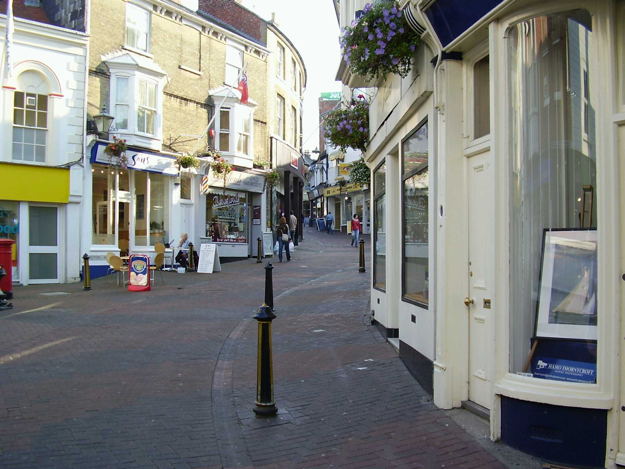 Cowes High Street.